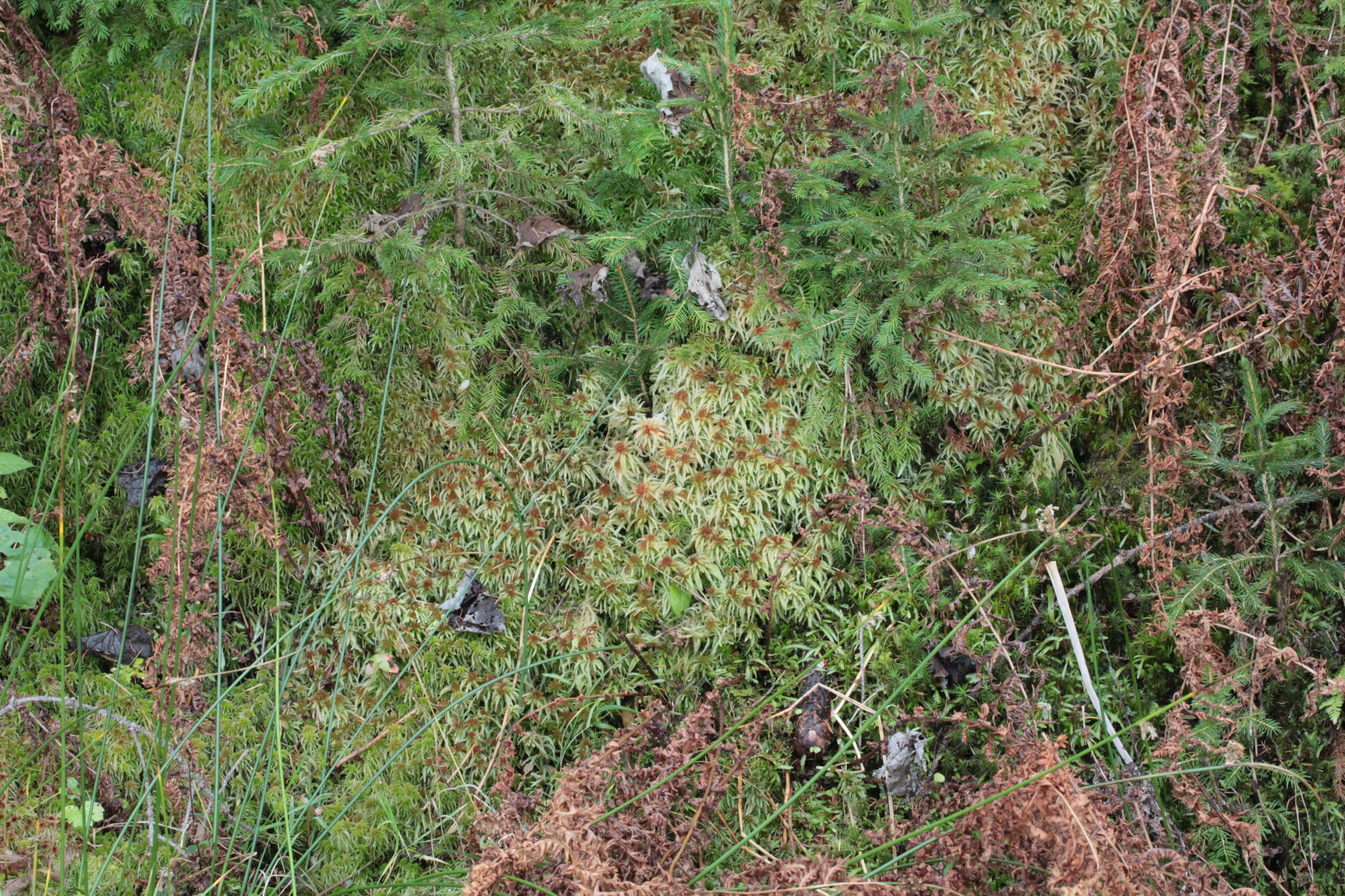 Sphagnum palustre